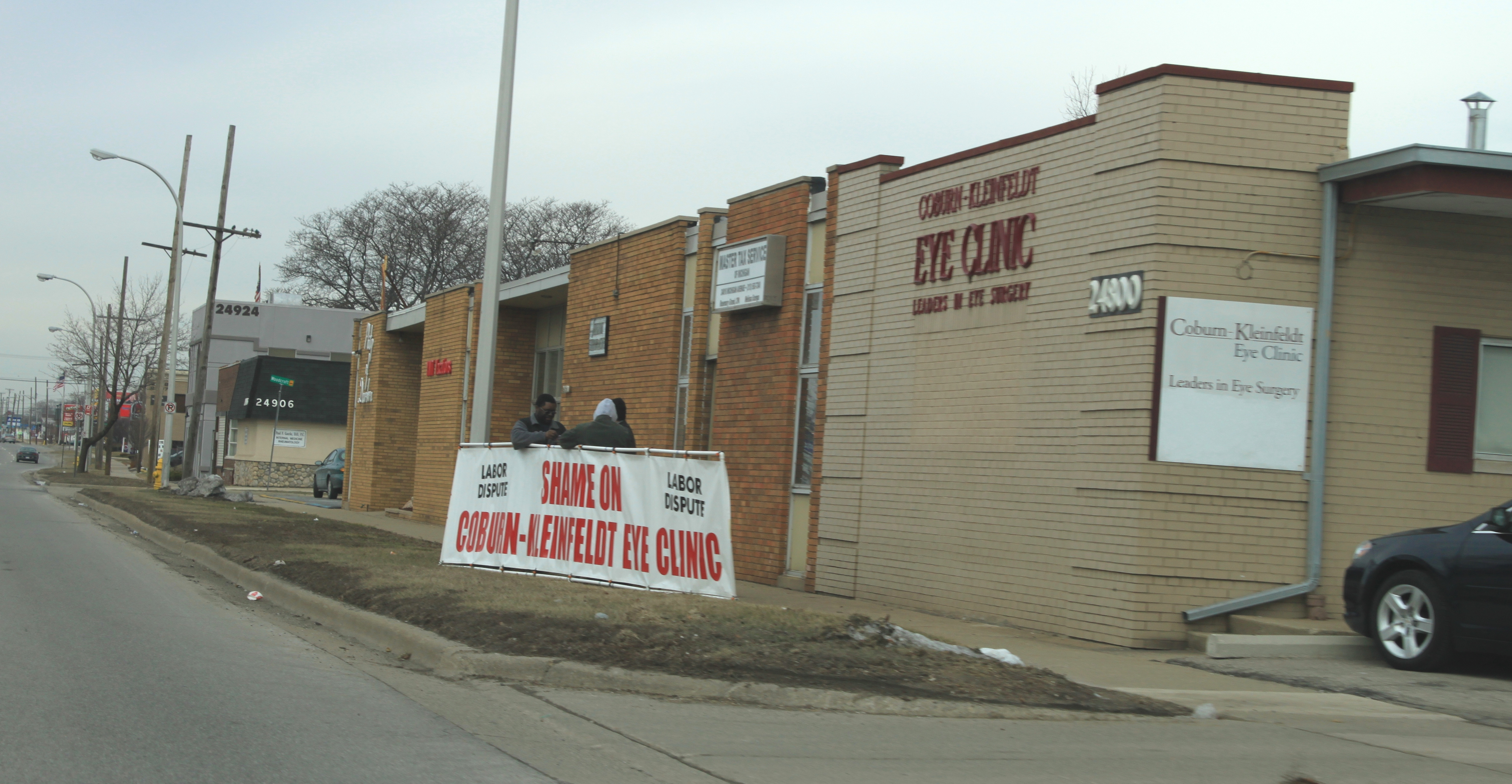 Striking workers at Coburn-Kleinfeldt Eye Clinic, 24800 Michigan Avenue, Dearborn, Michigan